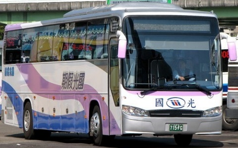 Kuo-Kuang Motor Transport Company Ltd. "Daewoo BH120T" Bus (715FG).